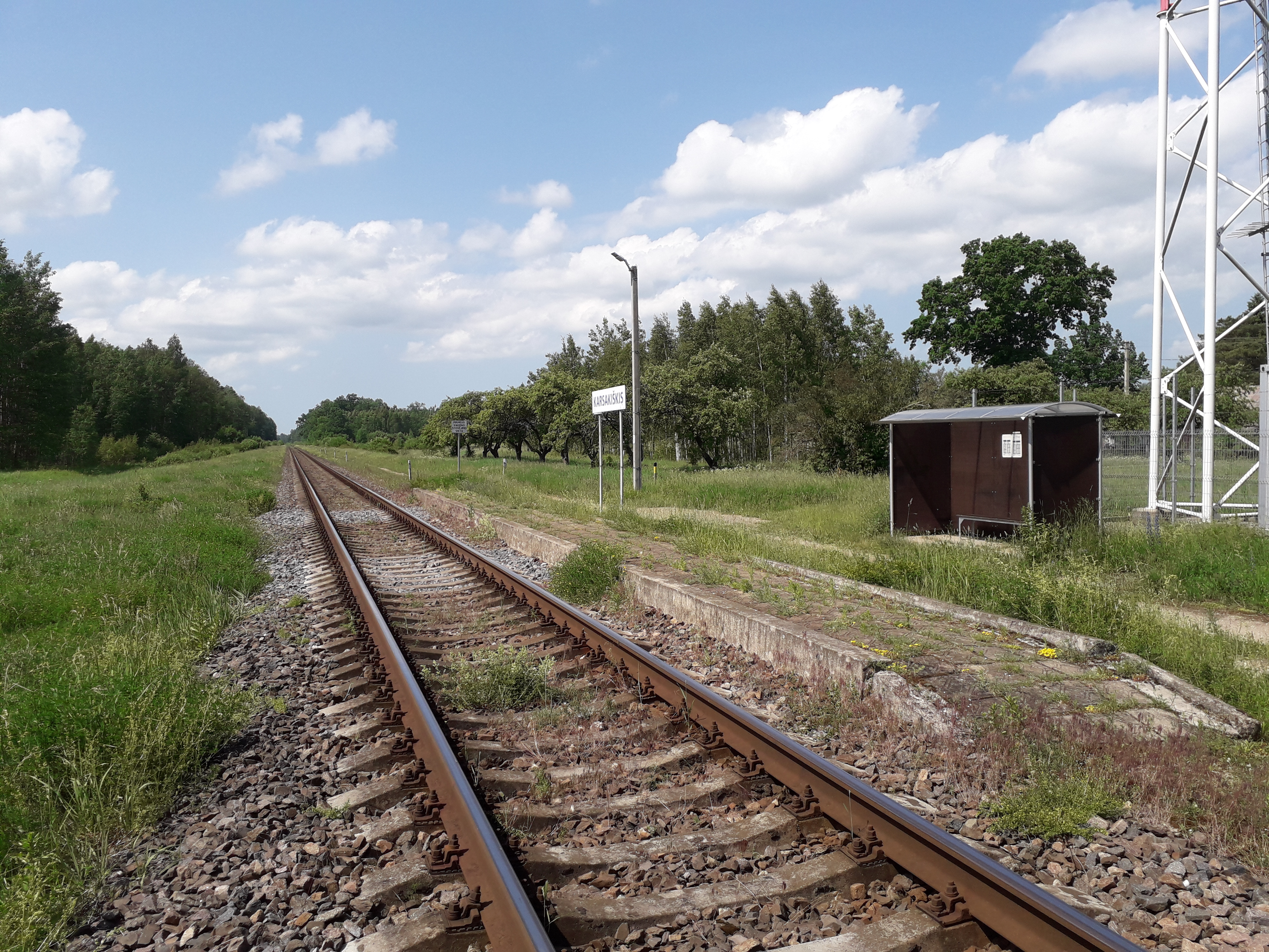 Railway stop, Karsakiškis, Panevėžys District, Lithuania